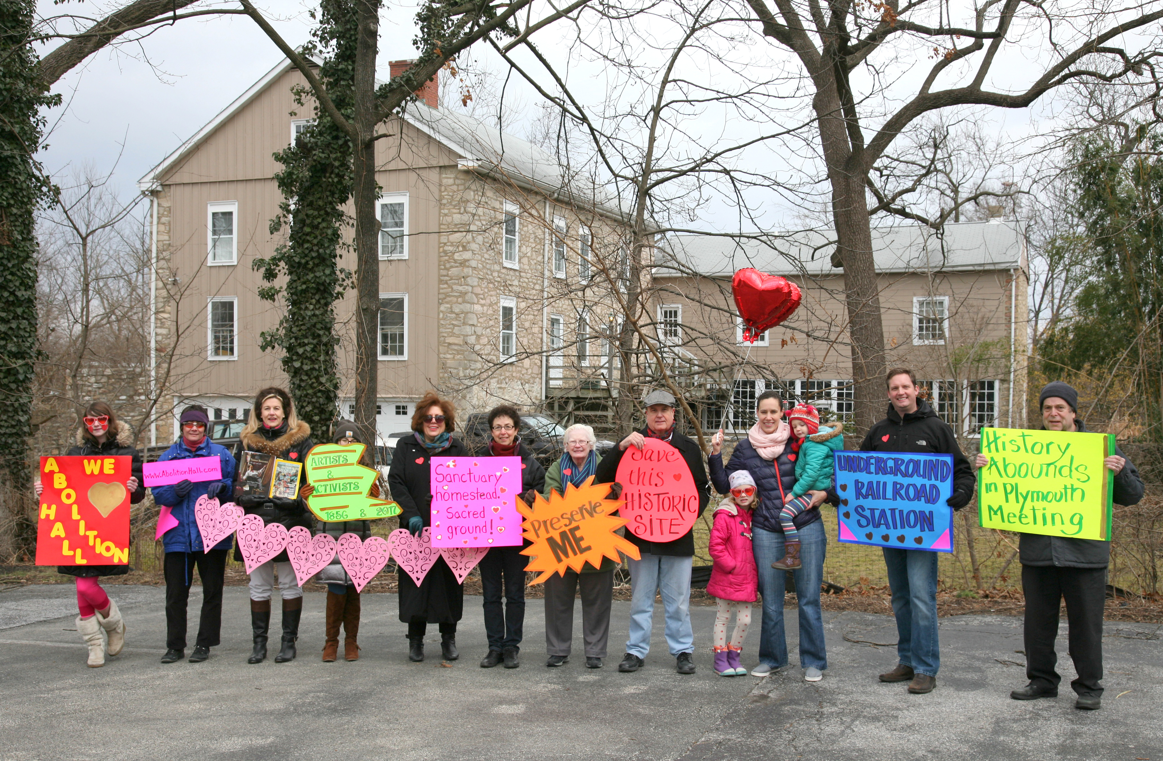 Friends of Abolition Hall, Plymouth Meeting, PA, gathered near the iconic property. Photo by Vita Litvak